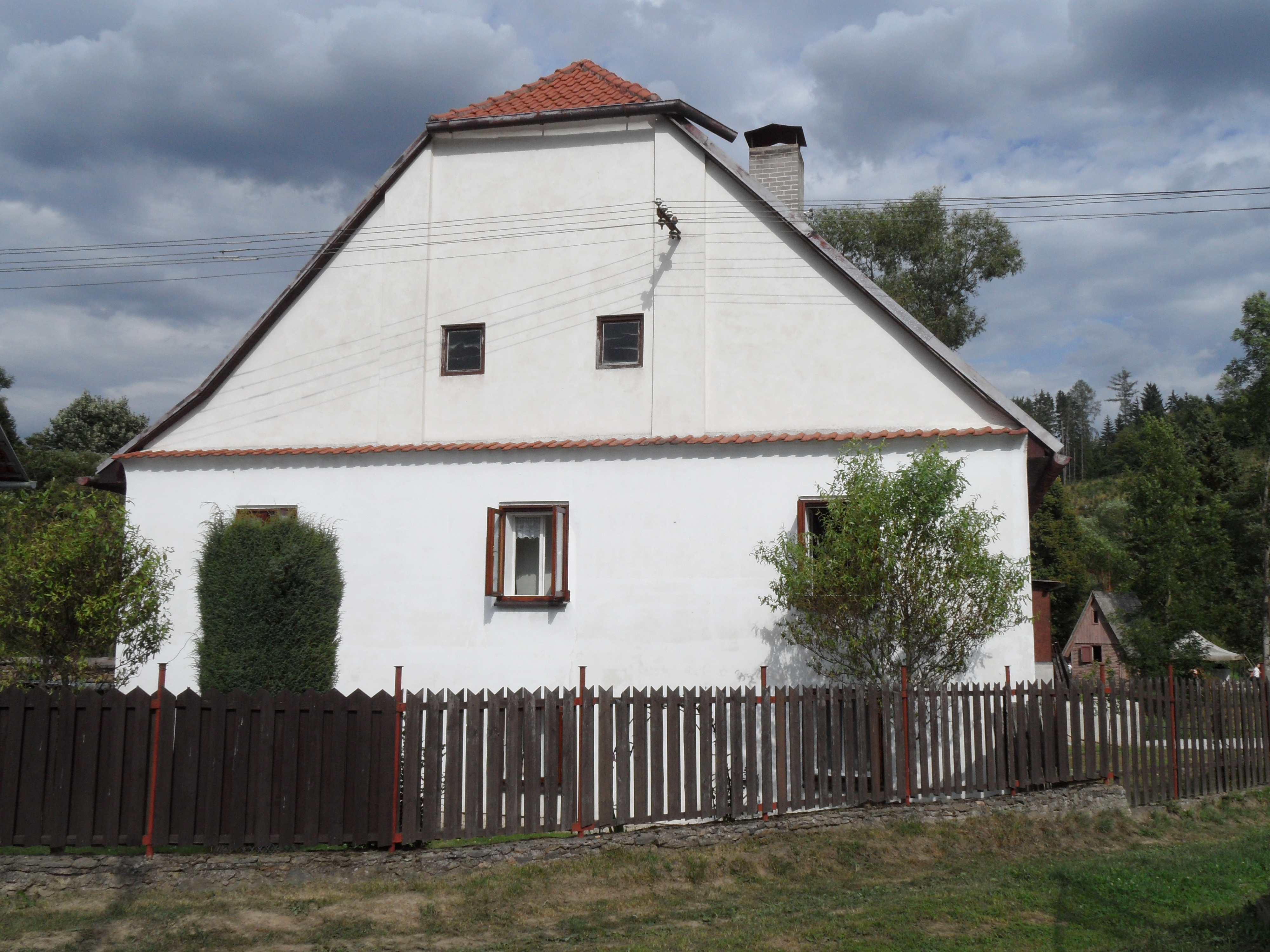 Březina (Vlastějovice) F. Building of Former Watermill, Kutná Hora District, the Czech Republic.